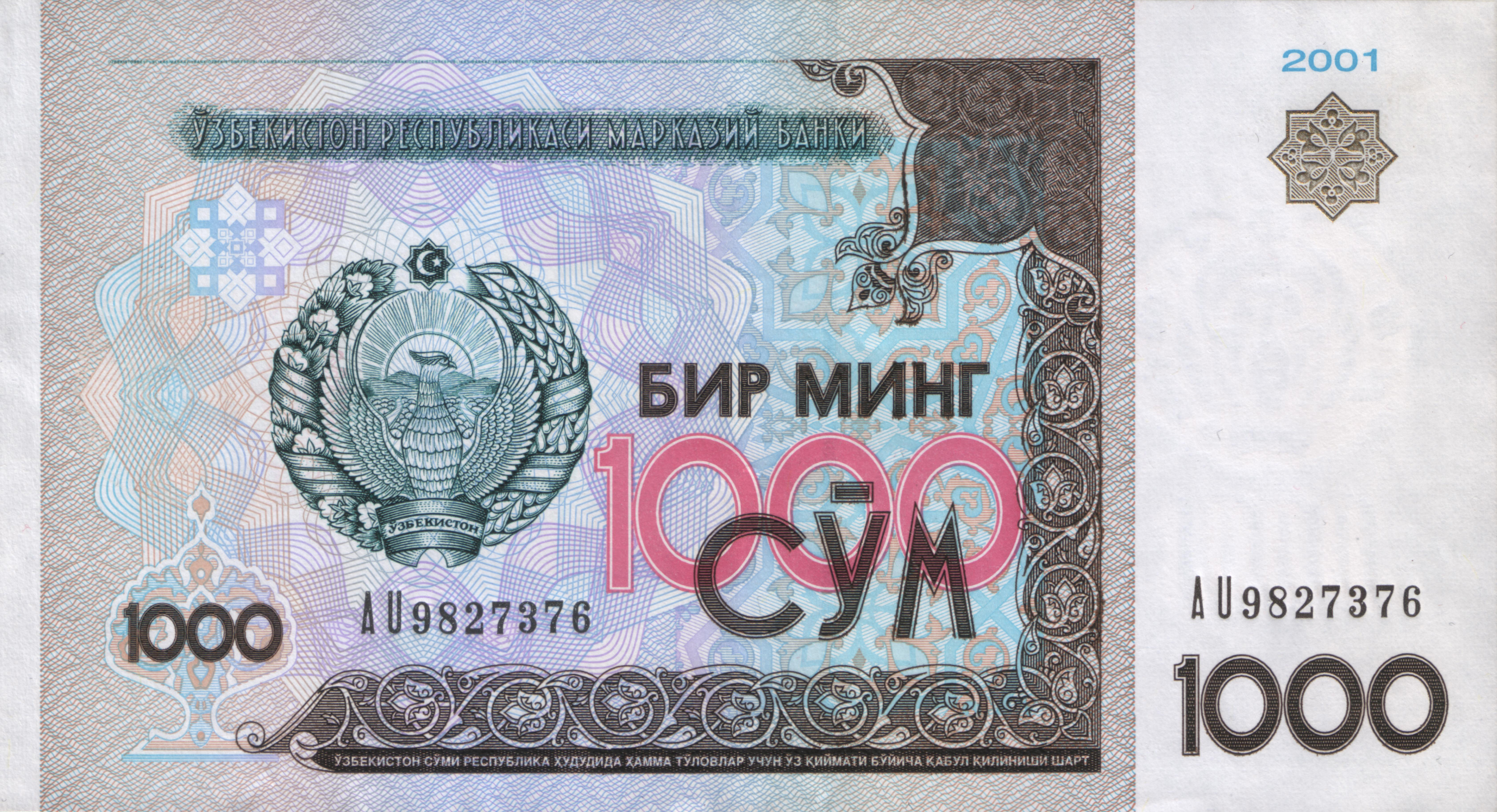 1000 soms of Uzbekistan (2001)